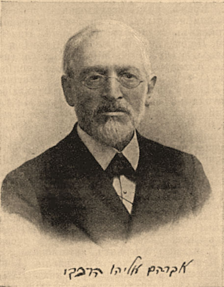 Illustration from Brockhaus and Efron Jewish Encyclopedia (1906—1913)